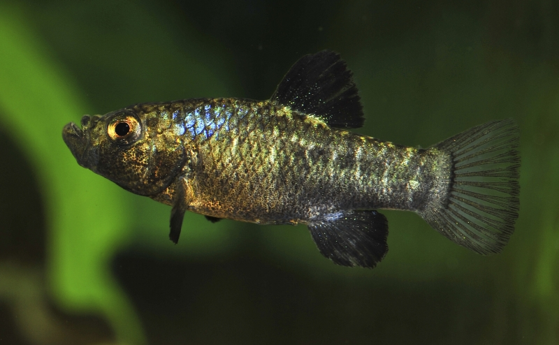 This is the Cyprinodon Desquamator species. One of three Cyprinodon species that live in San Salvador, Bahamas